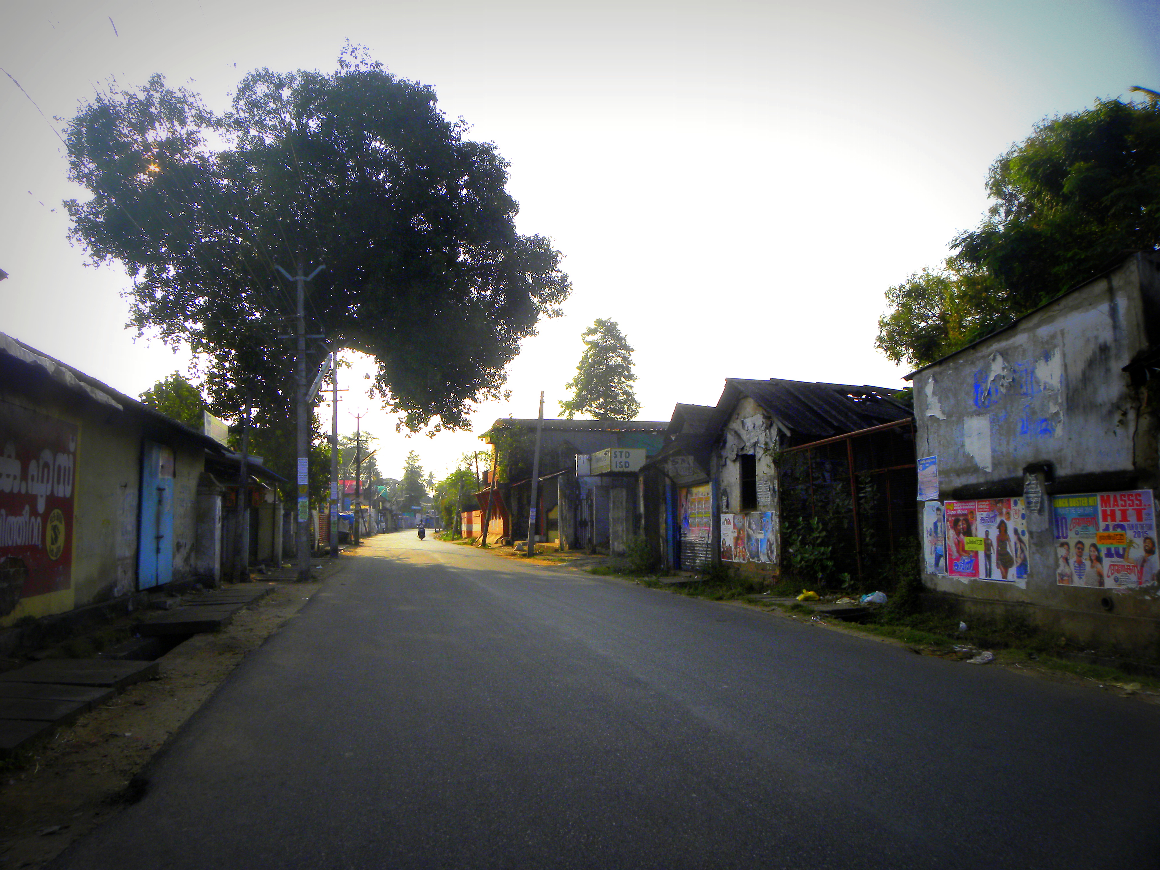 Thamarakulam is a neighbourhood in Kollam city where Kollam Development Authority office is situated